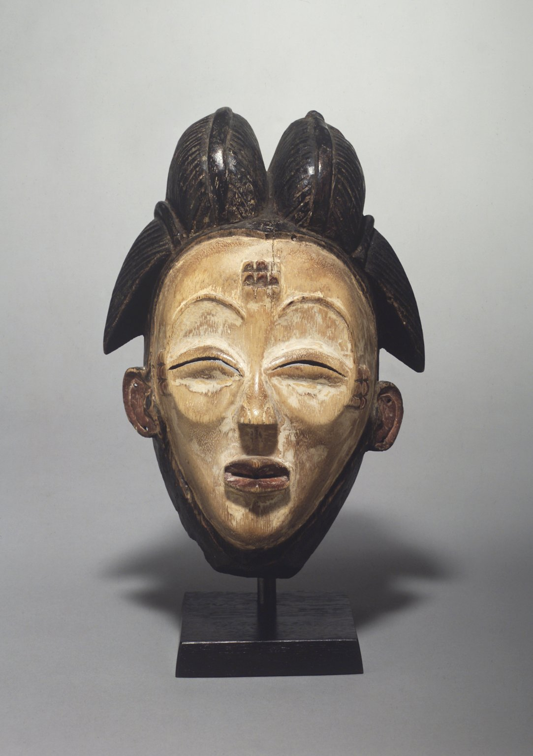 Mask (Okuyi)